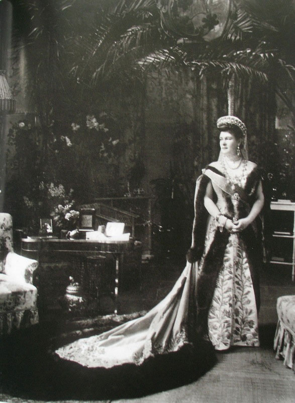 Portrait of Grand Duchess Maria Pavlovna of Russia (1854-1920)